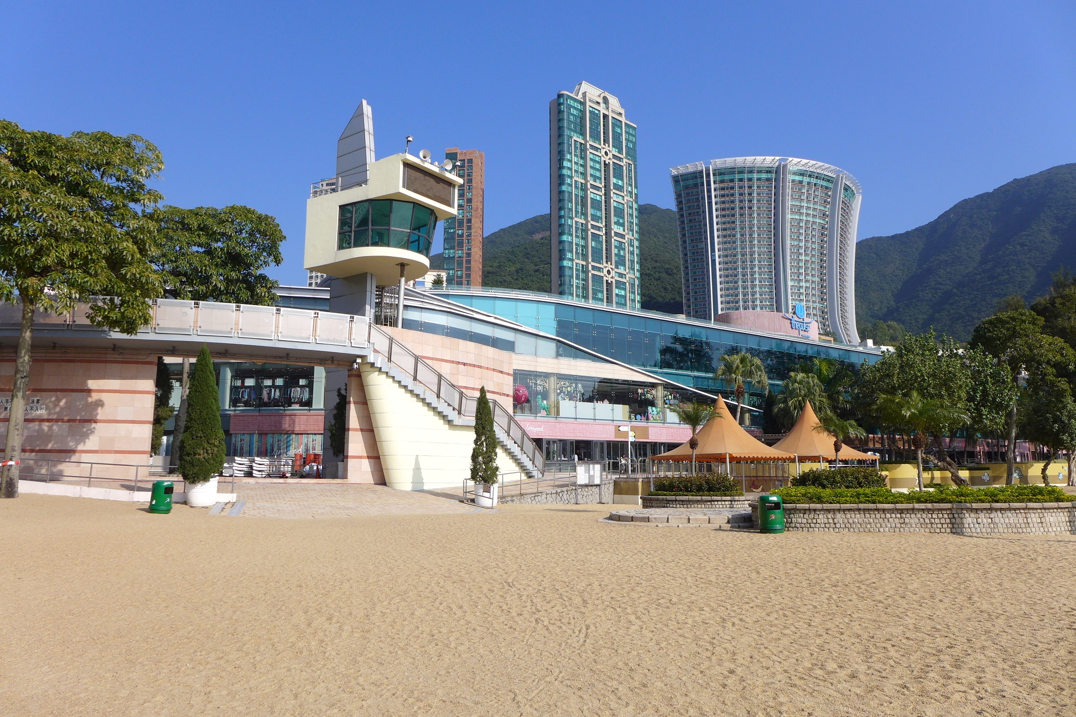 The Pulse Outside view